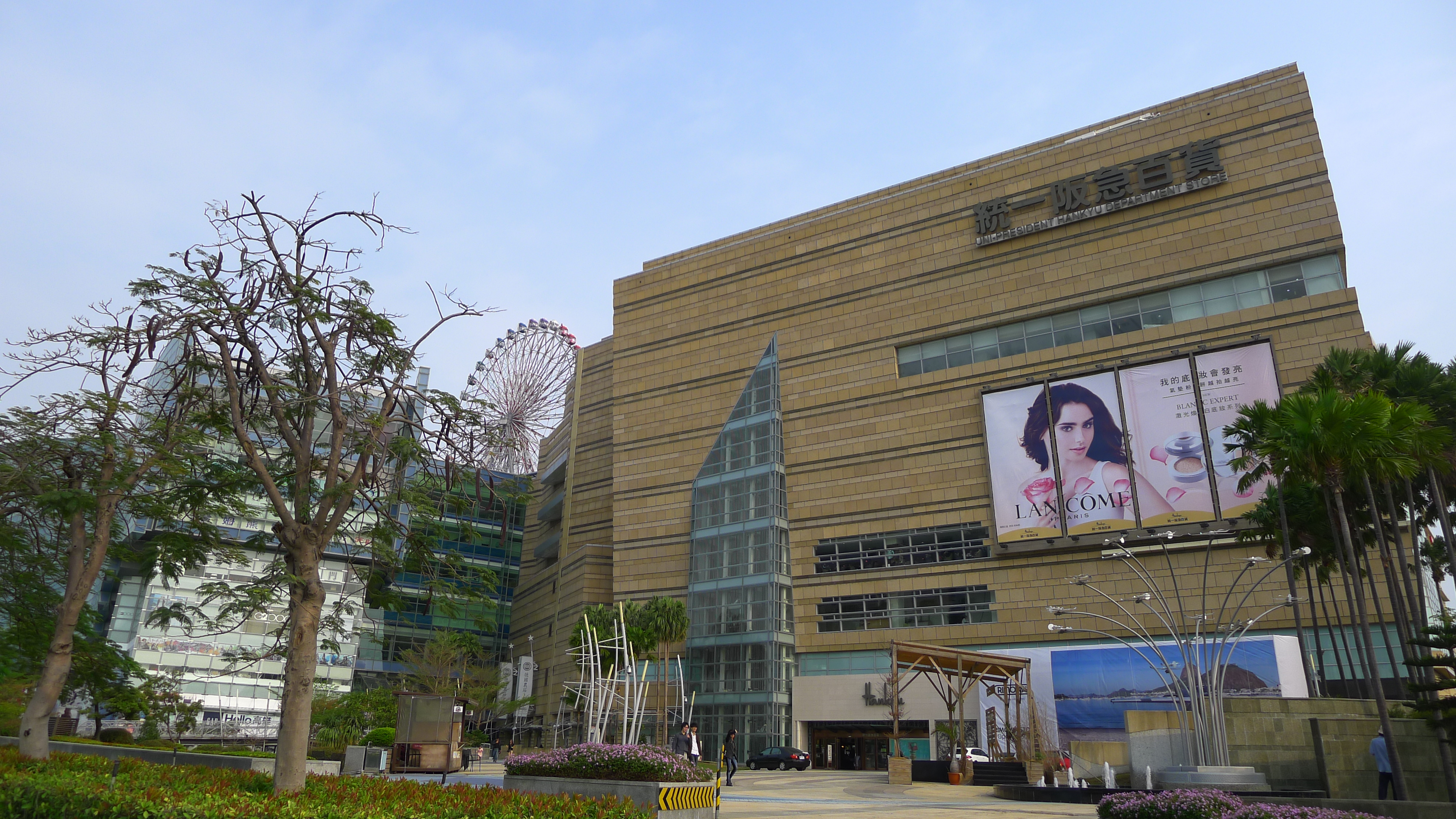 Kaohsiung Store, Uni-President Hankyu Department Store